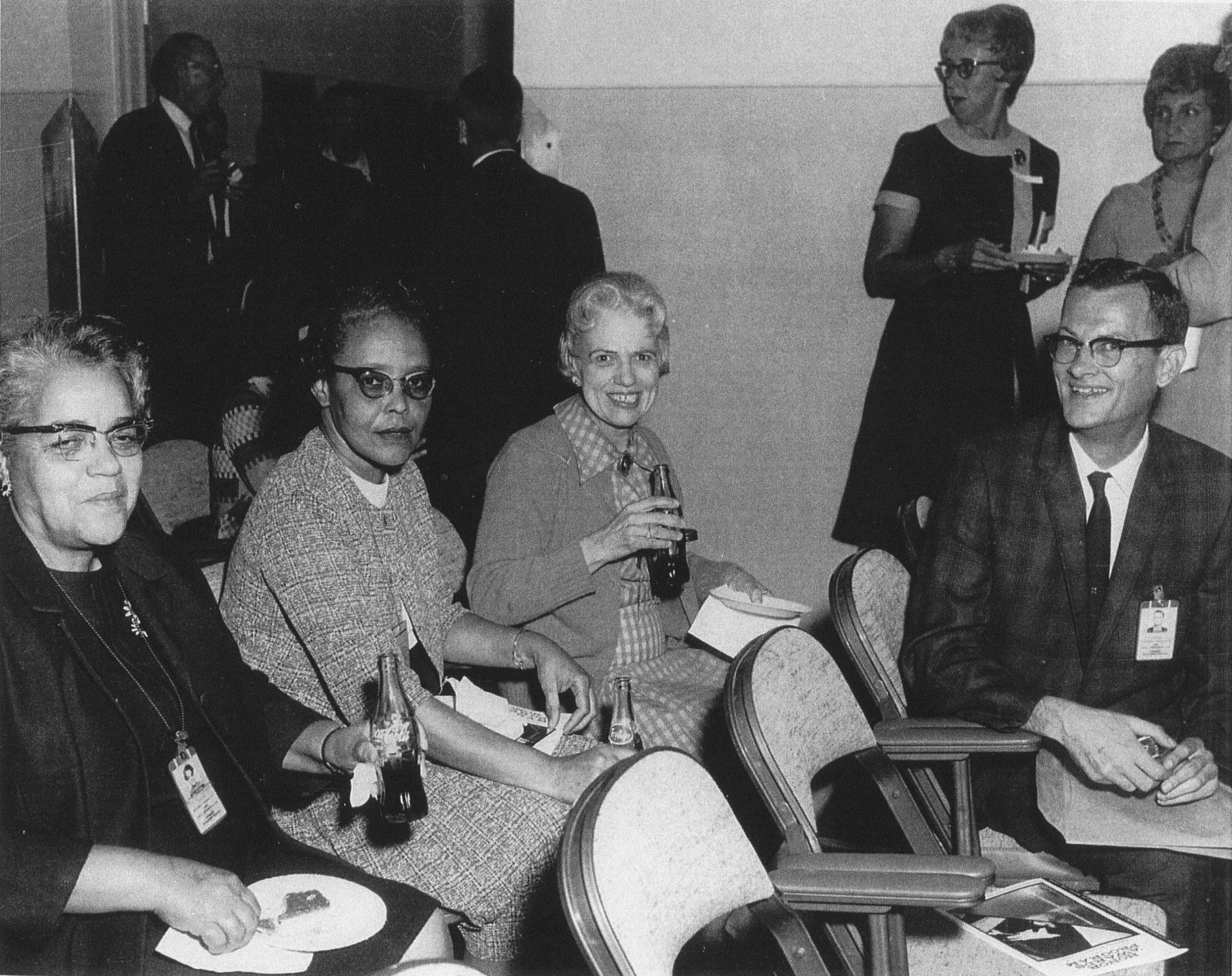 L-R: Dorothy Vaughan, Lessie Hunter, Vivian Adair (Margaret Ridenhour and Charlotte Craidon in back) Human Computers: photo donated by B. Golemba